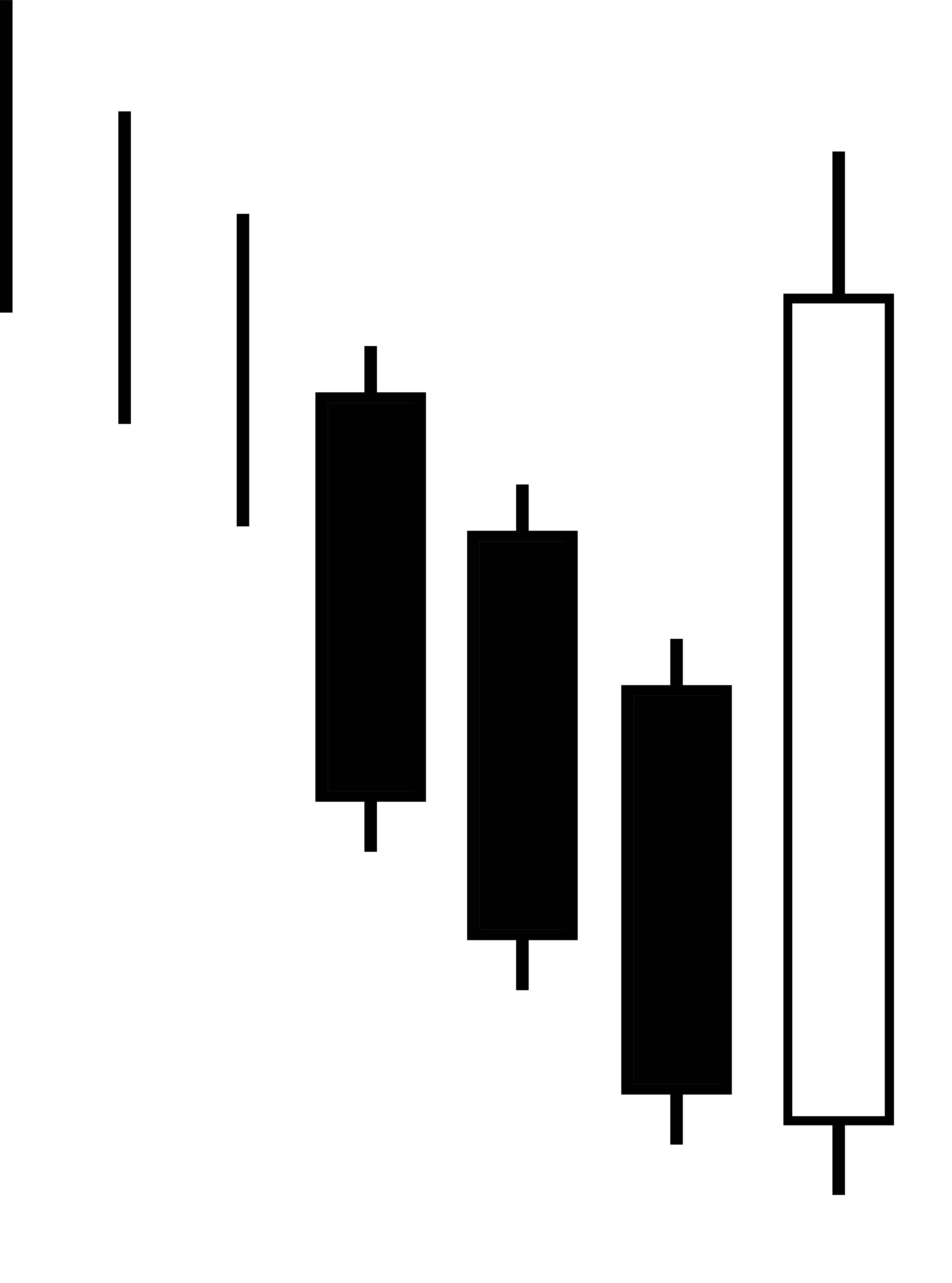 Bearish Three Line Strike